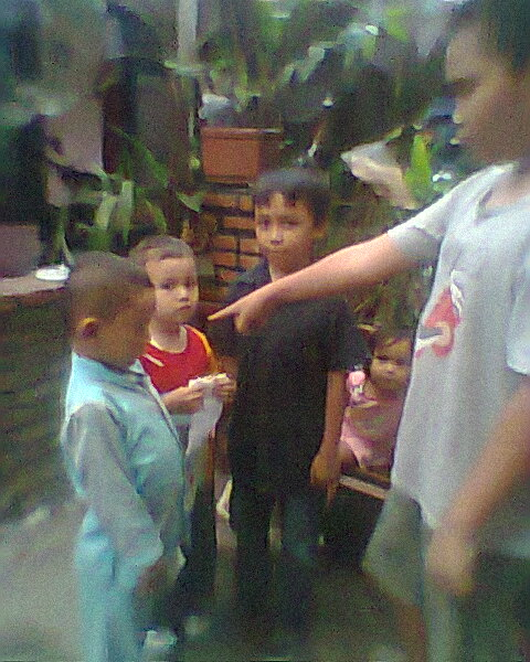 cokcang cokcangan